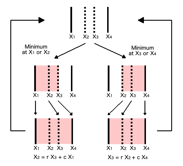 A diagram of a golden section search showing the technique of narrowing the interval in x containing a minimum of a function f[x], using the maximally efficient golden ratio.